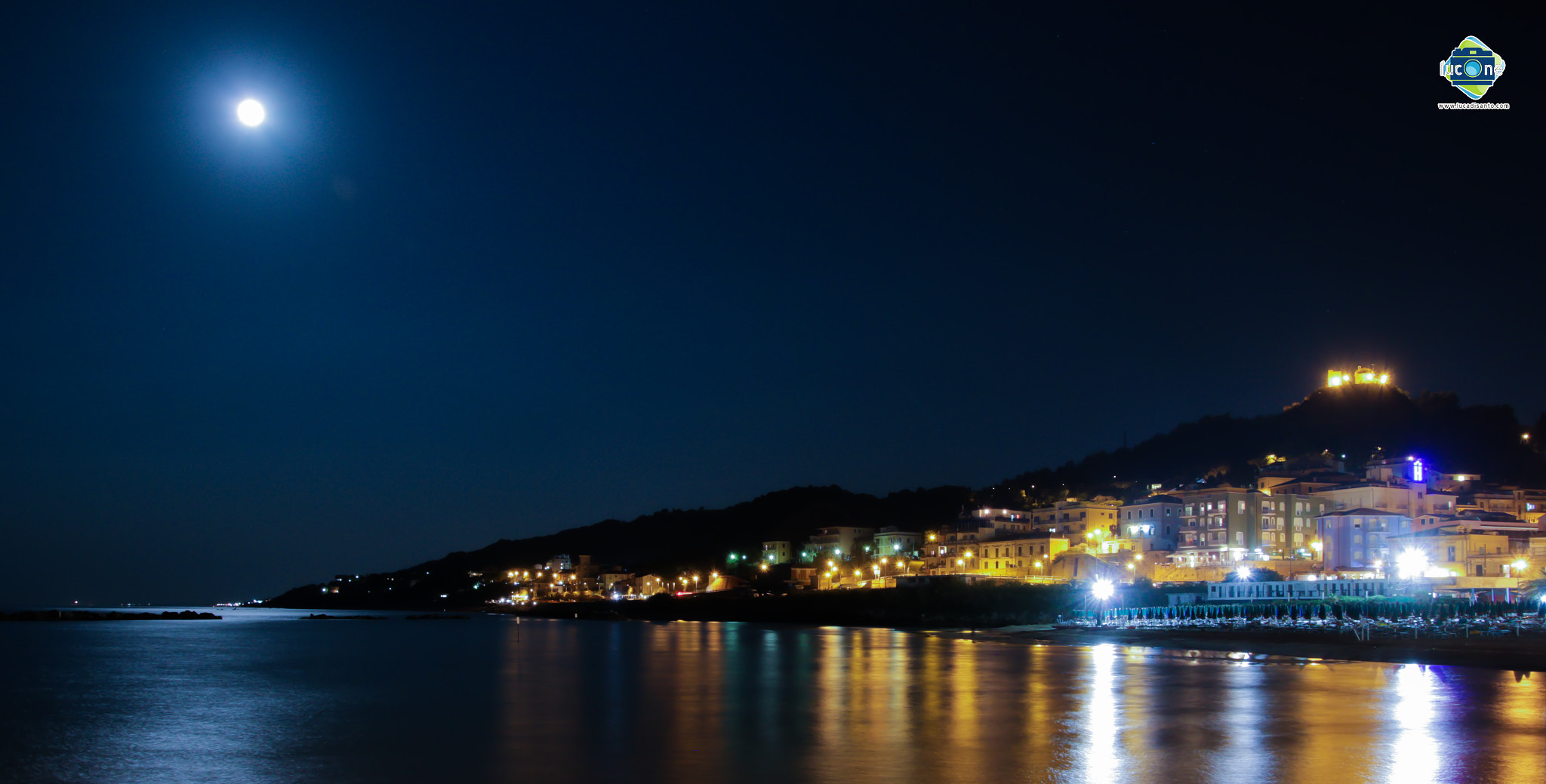 500px provided description: San Vito Chietino Magic Gift in Abruzzo [#sea ,#water ,#blue ,#night ,#italy ,#moon ,#seascape ,#long exposure ,#San Vito Chietino ,#Italy ,#Nightscape ,#Abruzzo]